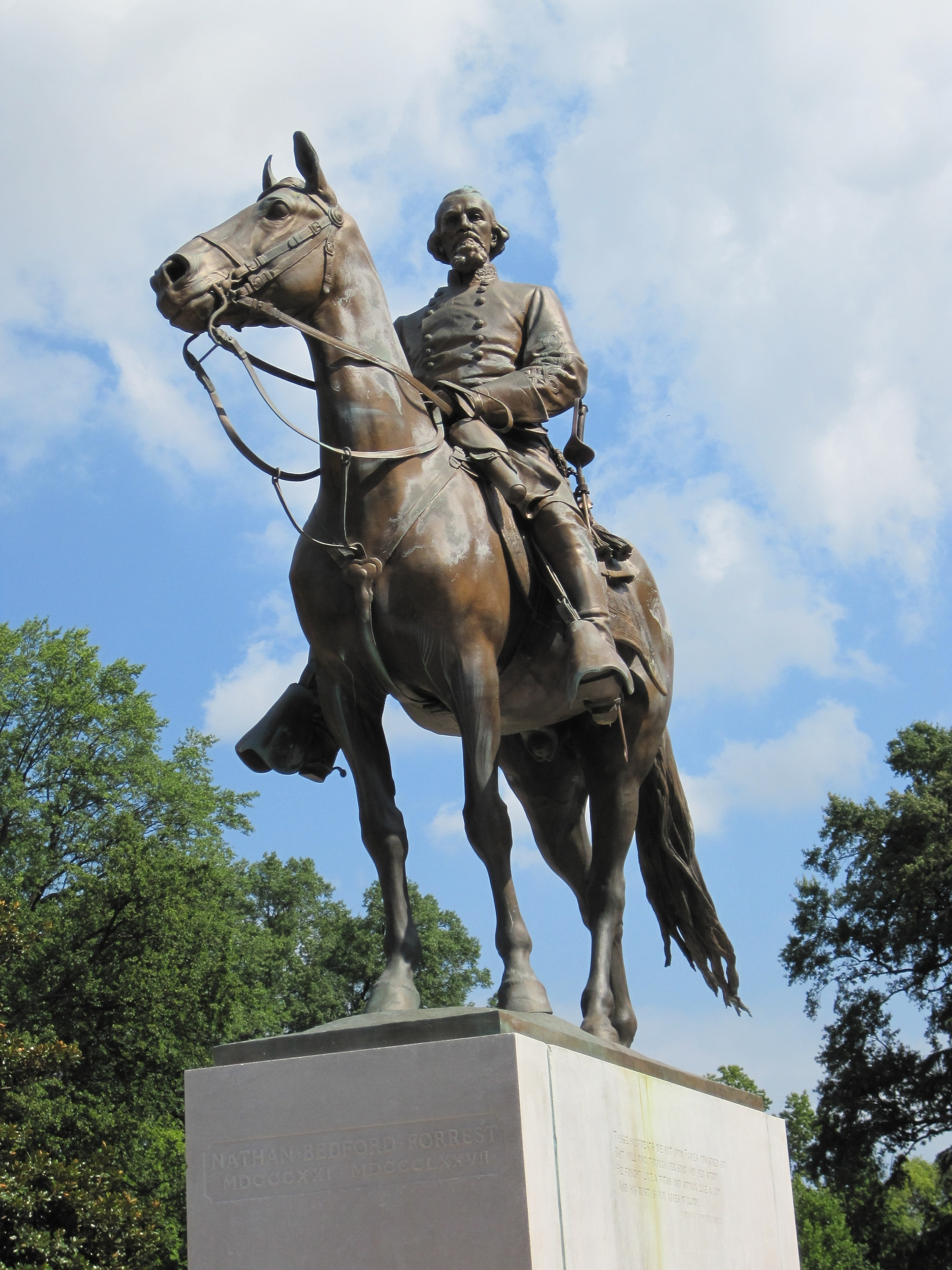 Forrest Park (Memphis, Tennessee). Grave of Nathan Bedford Forrest